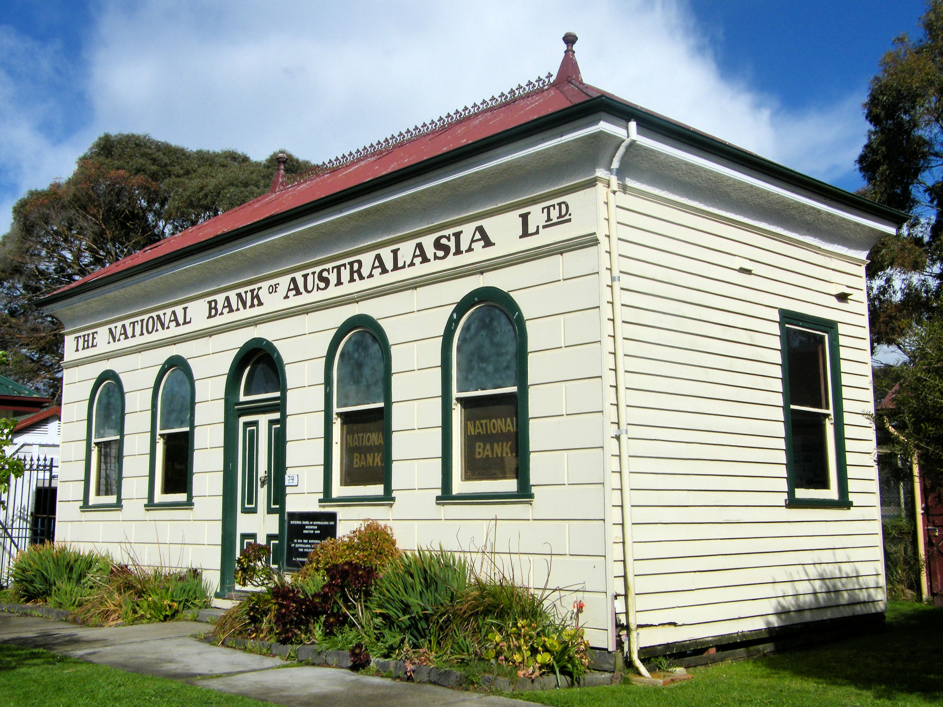 Built for the Colonial Bank of Australasia, it became a branch of the National Bank of Australasia. It is now located in the Old Gippstown historical park in Moe